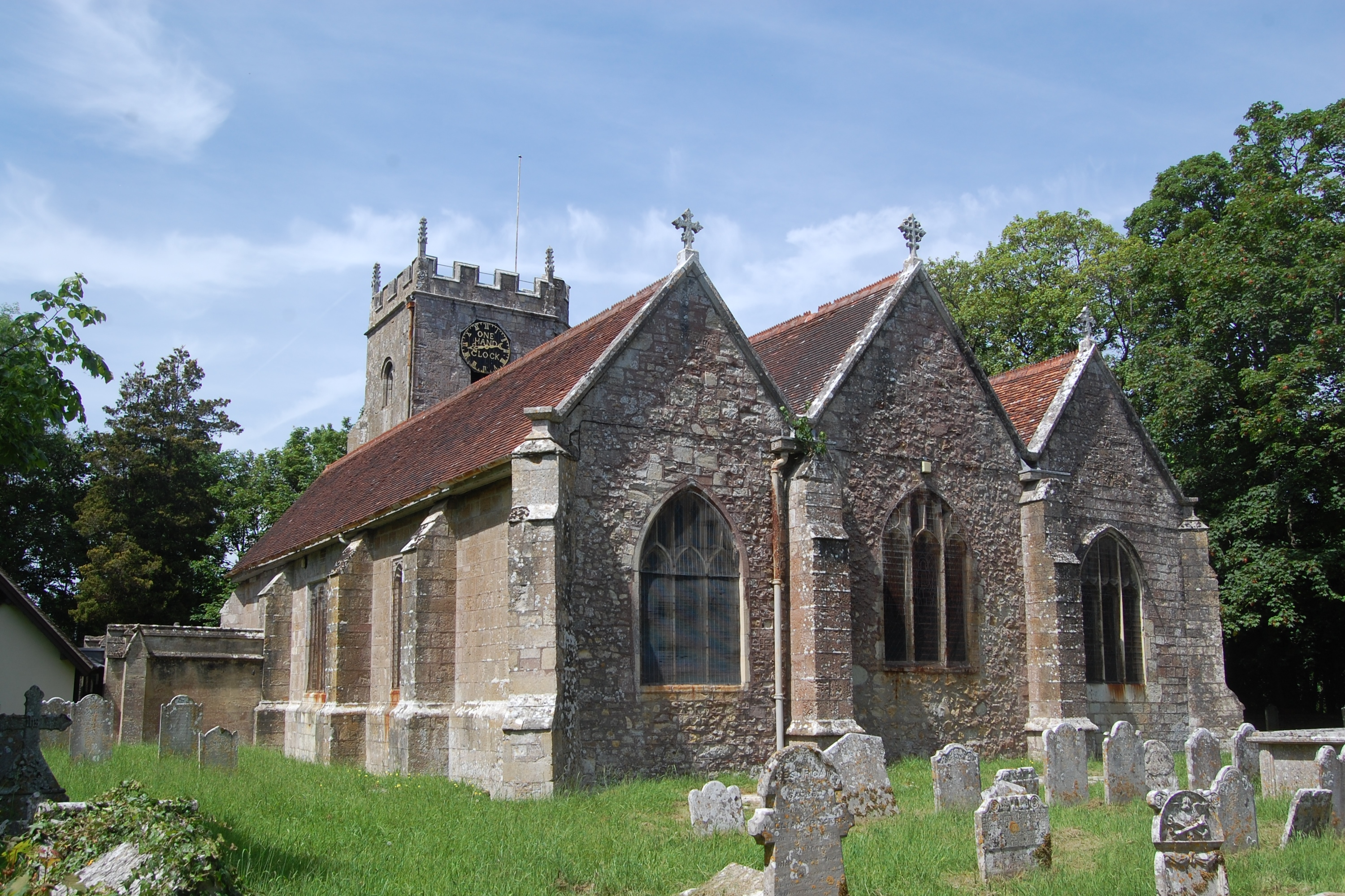 St Nicolas' Church, Stoneham Lane, North Stoneham, Borough of Eastleigh, Hampshire, England. The Anglican parish church of North Stoneham.